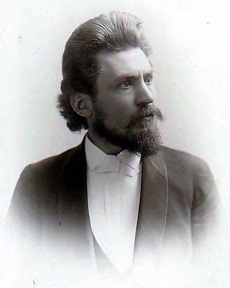 Hugo Walter Voigtlander. Photo was taken between 1887-1894 (the time he lived in Detroit, Mich) It is embossed on the bottom with the name and address of photographer in Detroit.